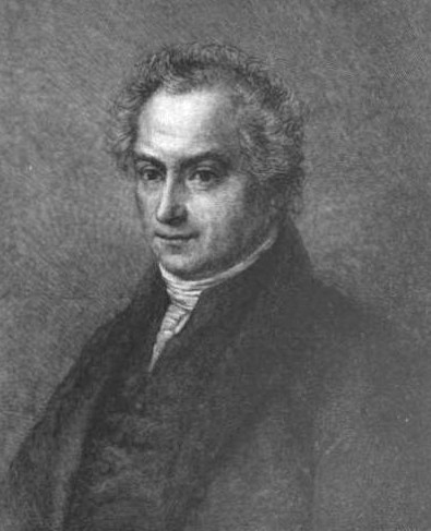 Picture of Heinrich Wilhelm Olbers, the German astronomer